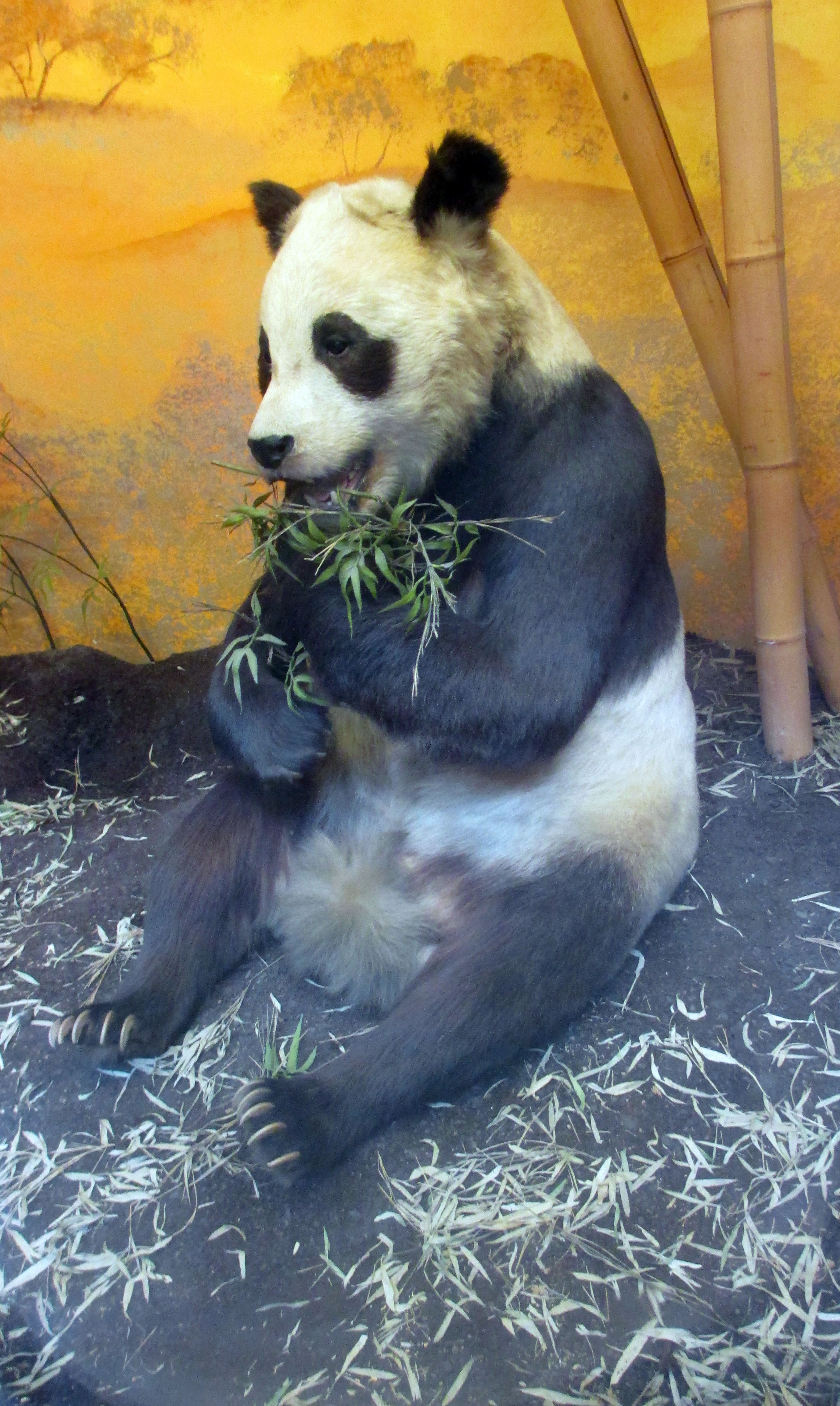 Taxidermied body of Chi Chi the giant panda at the Natural History Museum in London